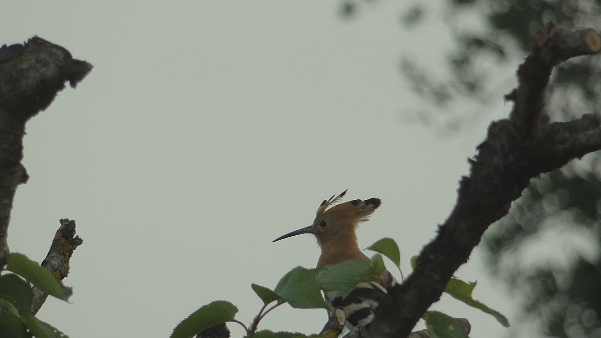 Upupa epops, on a cherry tree.